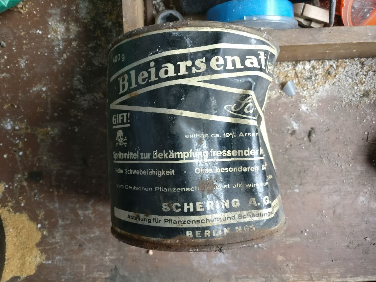 An old insecticide can made by Schering AG which contains a lead arsenate based powder.